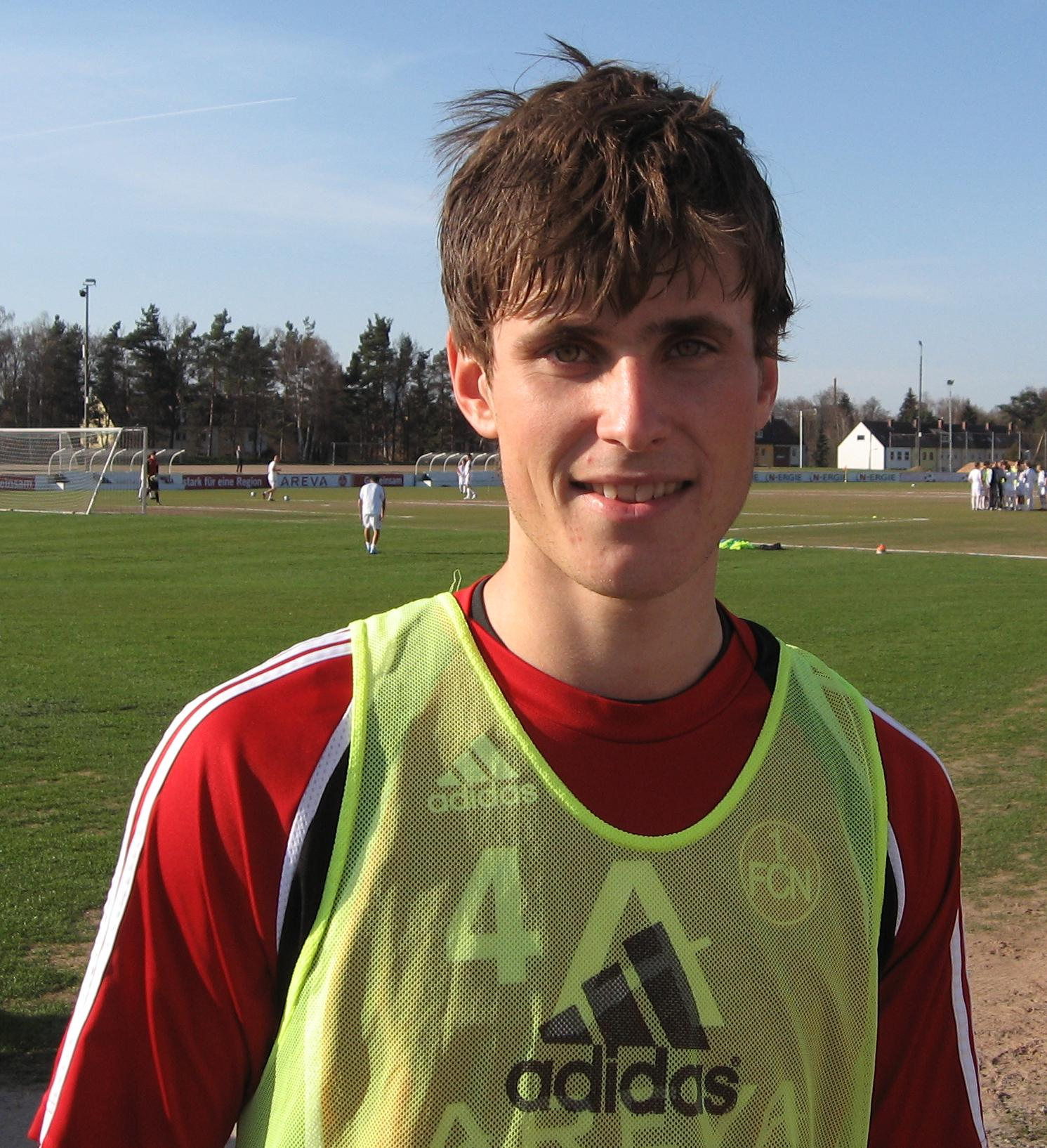 Håvard Nordtveit, player of 1. FC Nürnberg.